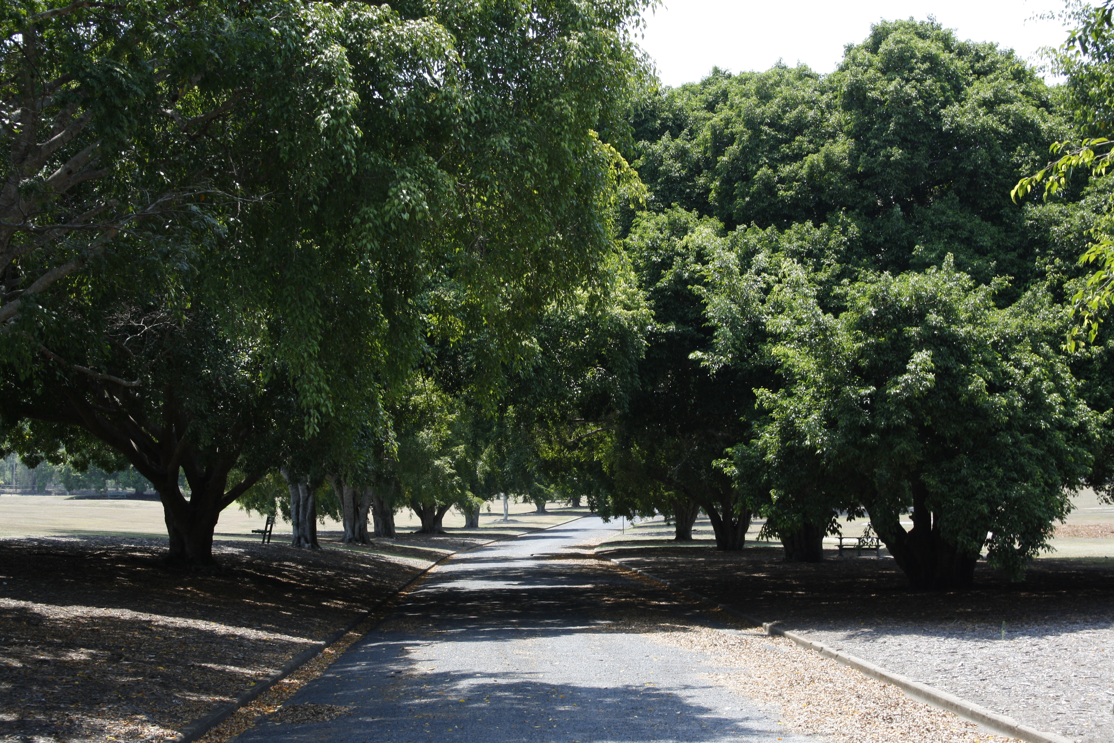 Yeronga Park tree lined memorial drive, Brisbane, Australia.